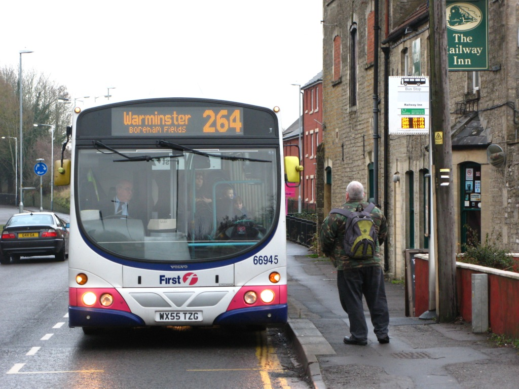 First Somerset and Avon bus 66945 (WX55TZG) picks up a passenger near Westbury railway station in Wiltshire, Avon. The bus stop flag has an inbuilt electronic timetable showing the times of the next three buses.